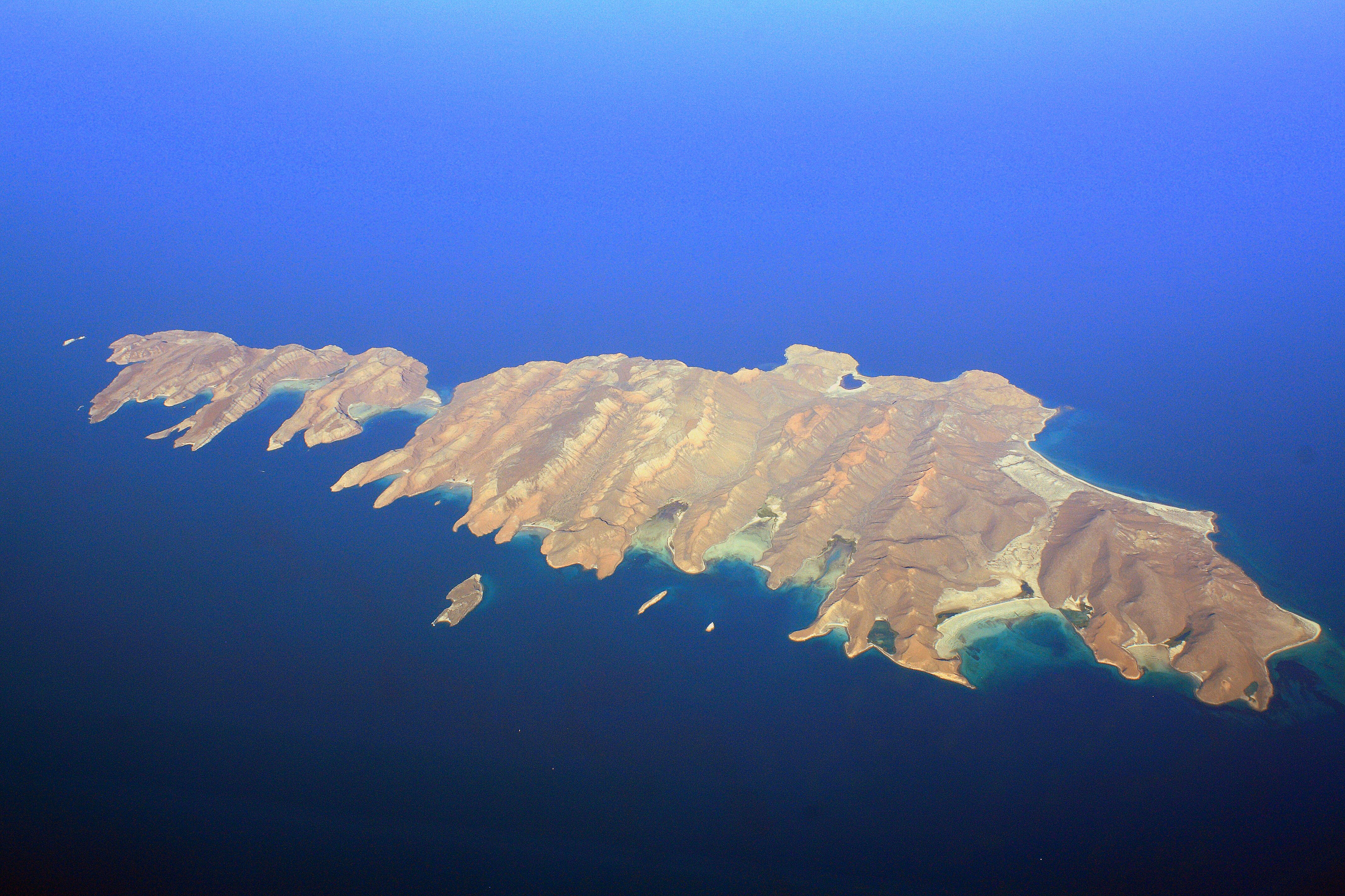 Isla Espíritu Santo is an island in the Gulf of California, off the Mexican state of Baja California Sur. It is connected to Isla Partida by a narrow isthmus. The area is protected under UNESCO as a biosphere, and its importance as an eco-tourism destination is the main factor. The islands are both uninhabited. They are a short boat trip from La Paz on the Baja California peninsula. Ensenada Grande beach, on Isla Partida, was voted the most beautiful beach in Mexico by The Travel Magazine and one of the top 12 beaches in the world.